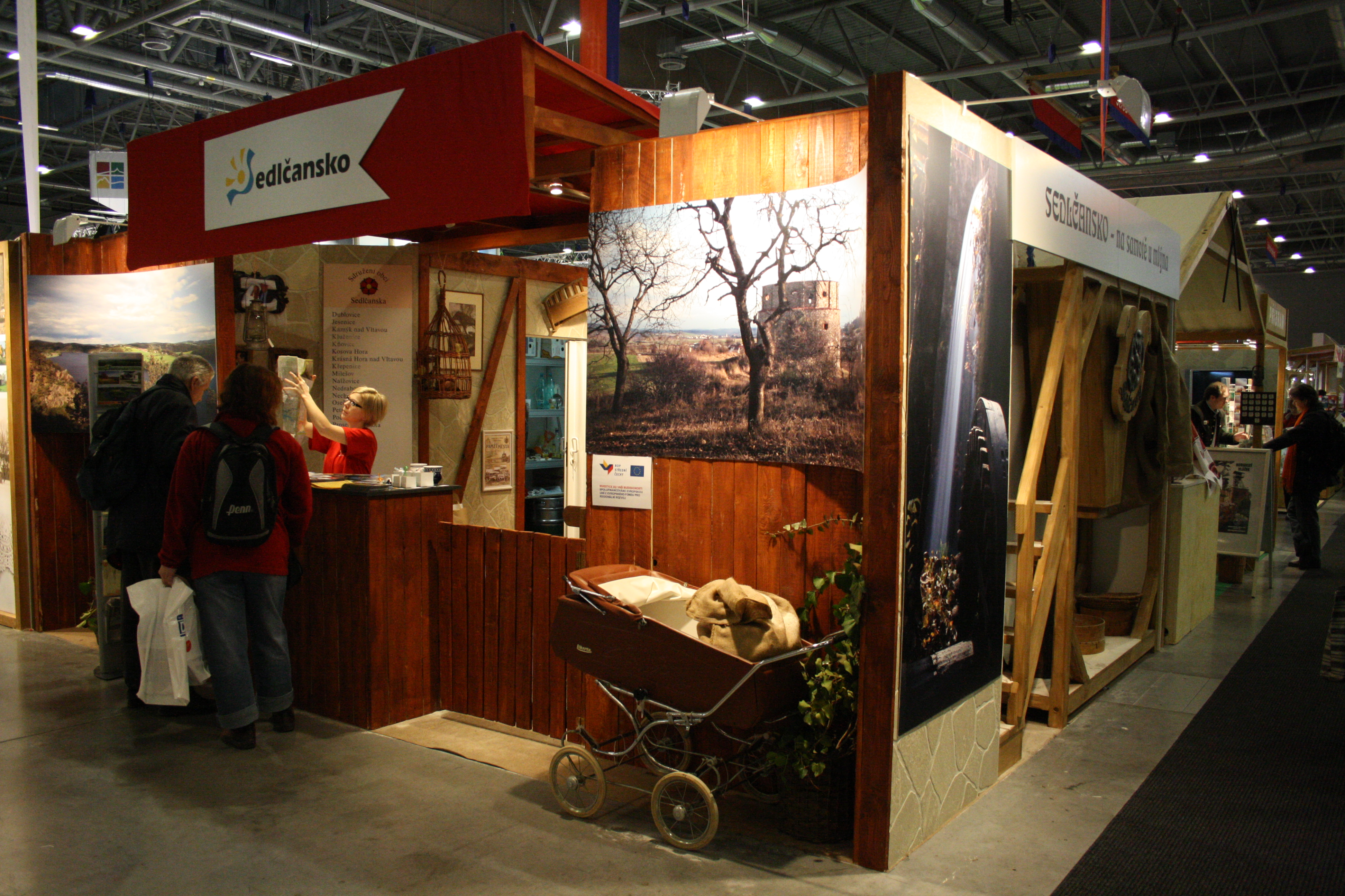 Presentation of various touristic destinations of Czech Republic.